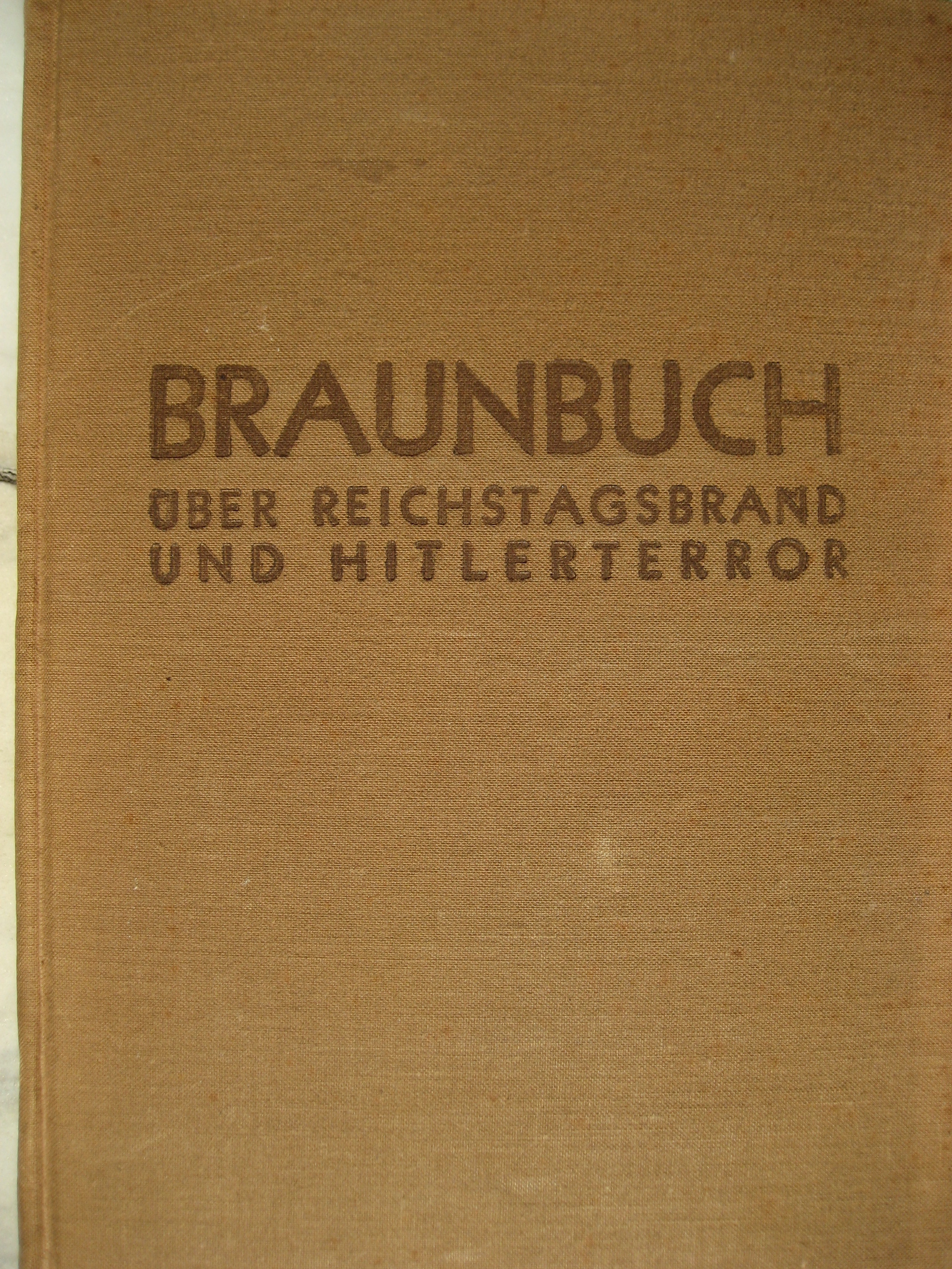 Edition Carrefour, Paris 1933. Edition Carrefour was a publishing house of Willi Münzenberg and belonged to the Communist party of Germany. The book appeared shortly before the beginning of the Reichstagsbrandprozess, in which the Nazis wanted to prove the causation of the fire through members of left wing parties. Emigrated left wing politicians refuted in this book the attempt to put the blame on left wing parties. The date of the Reichstags-Fire is very eminent because after this the civil liberties were suspended and the dictatorship installed.